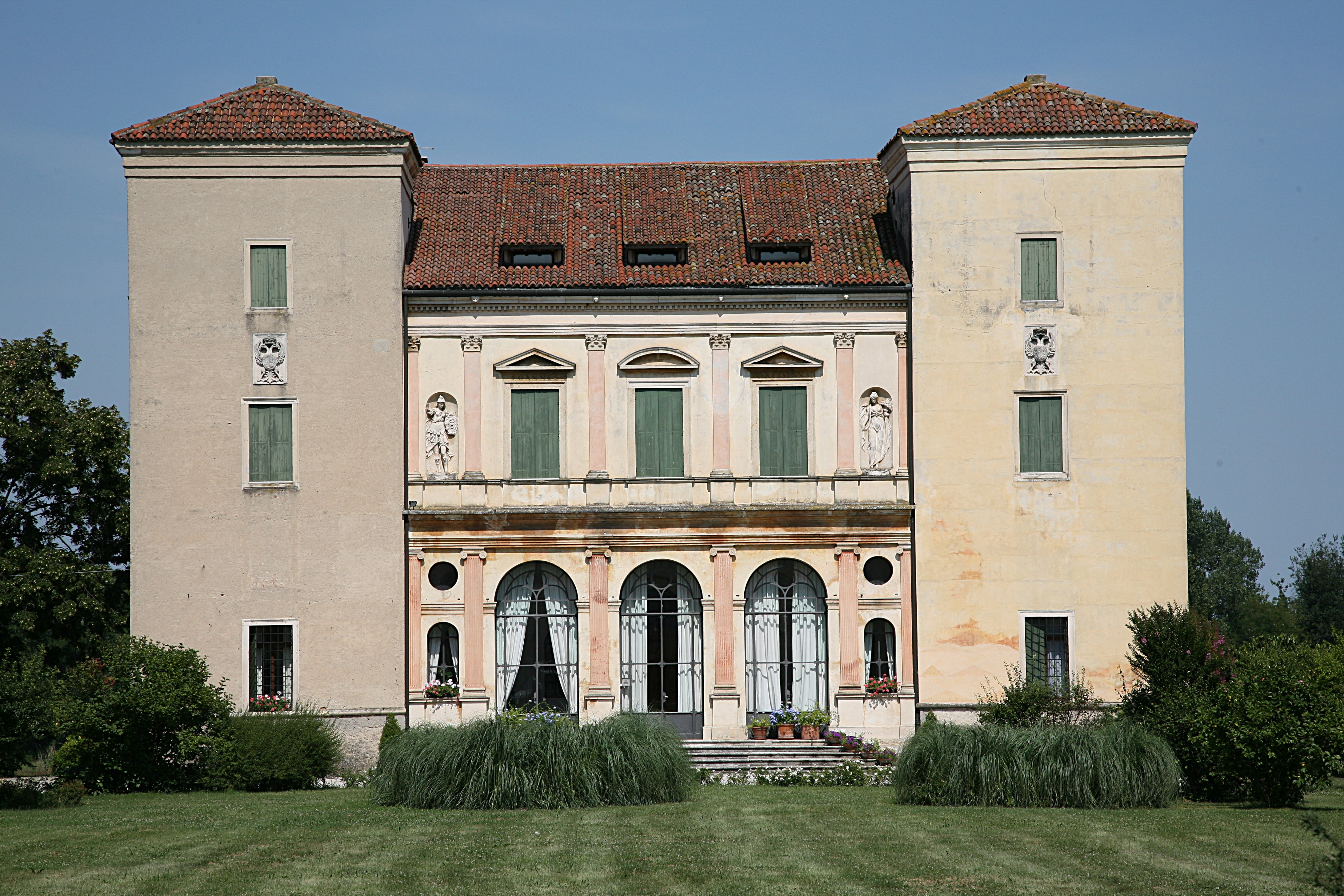 A villa just outside Vicenza. Tradition has it that Trissino here met the young man he would later give the name Andrea Palladio